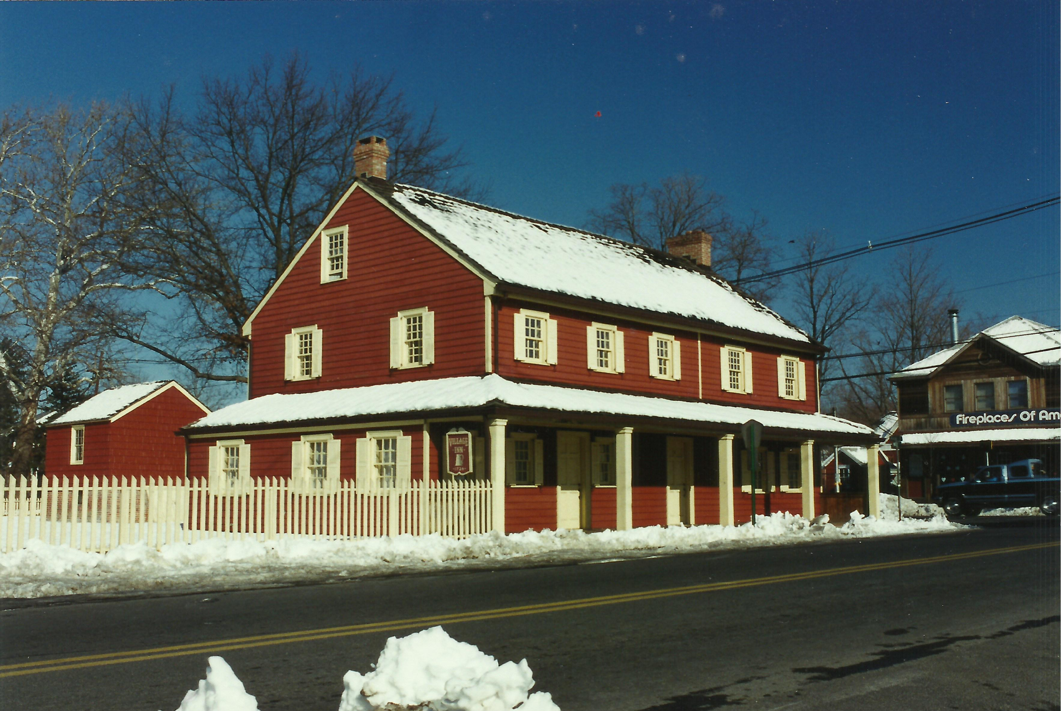 Historic Village Inn located in Englishtown, Monmouth County, New Jersey USA (circa 1996)